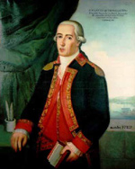 Portrait of Manuel Quimper (c.1757-1844), Peruvian navigator and writer